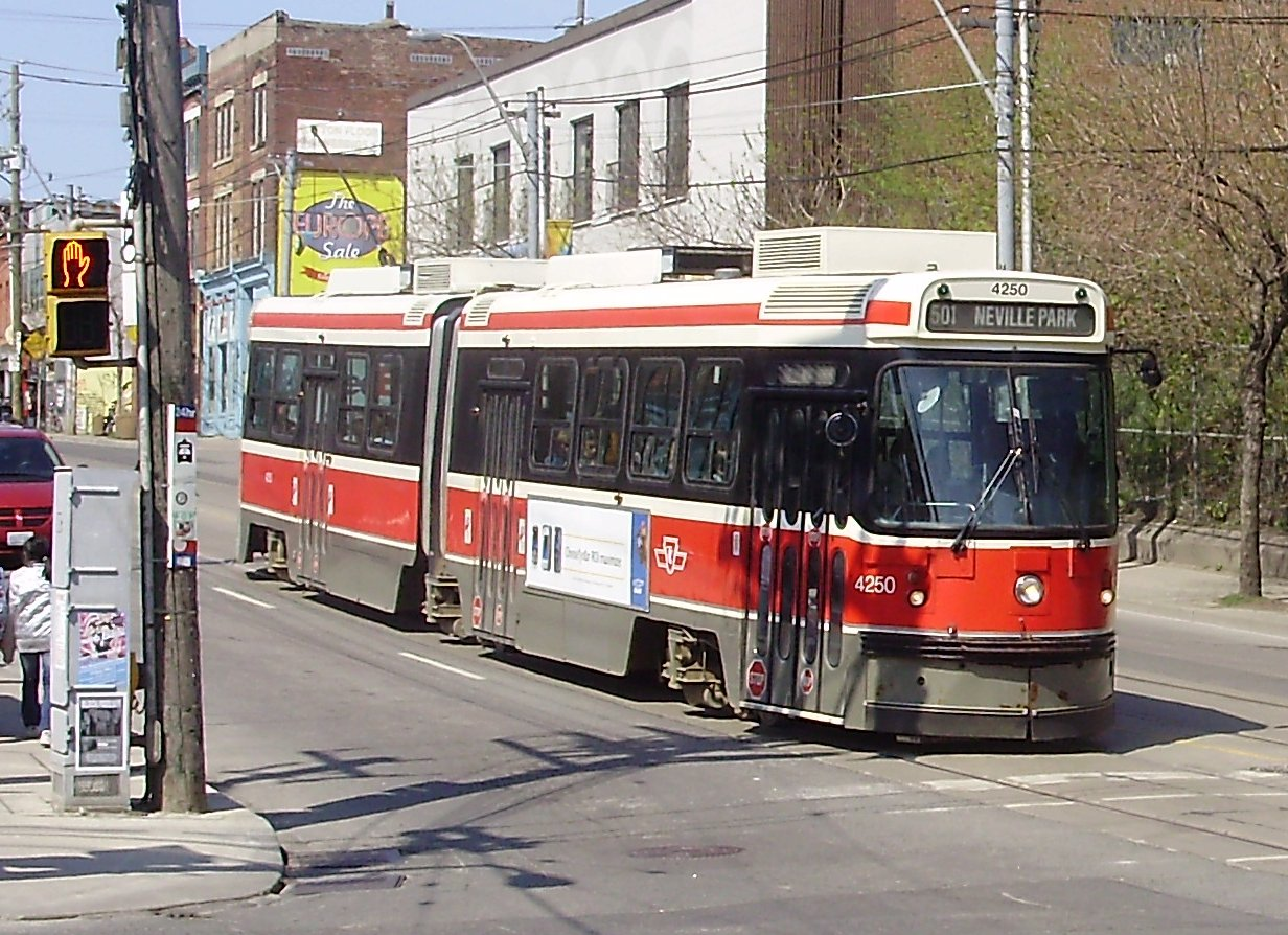 Toronto Transit Commission streetcar #4250 waiting at the intersection of Queen Street West and Dufferin Street in Toronto, ON.